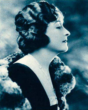 Publicity photo of Clara Kimball Young from Stars of the Photoplay